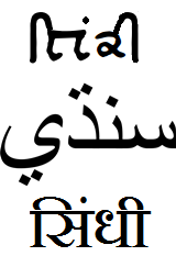 Sindhi written in Khudabadi, Sindhi Arabic and Devanagari scripts. 1st and third are self made, Sindhi Arabic derived from Sindhi.svg